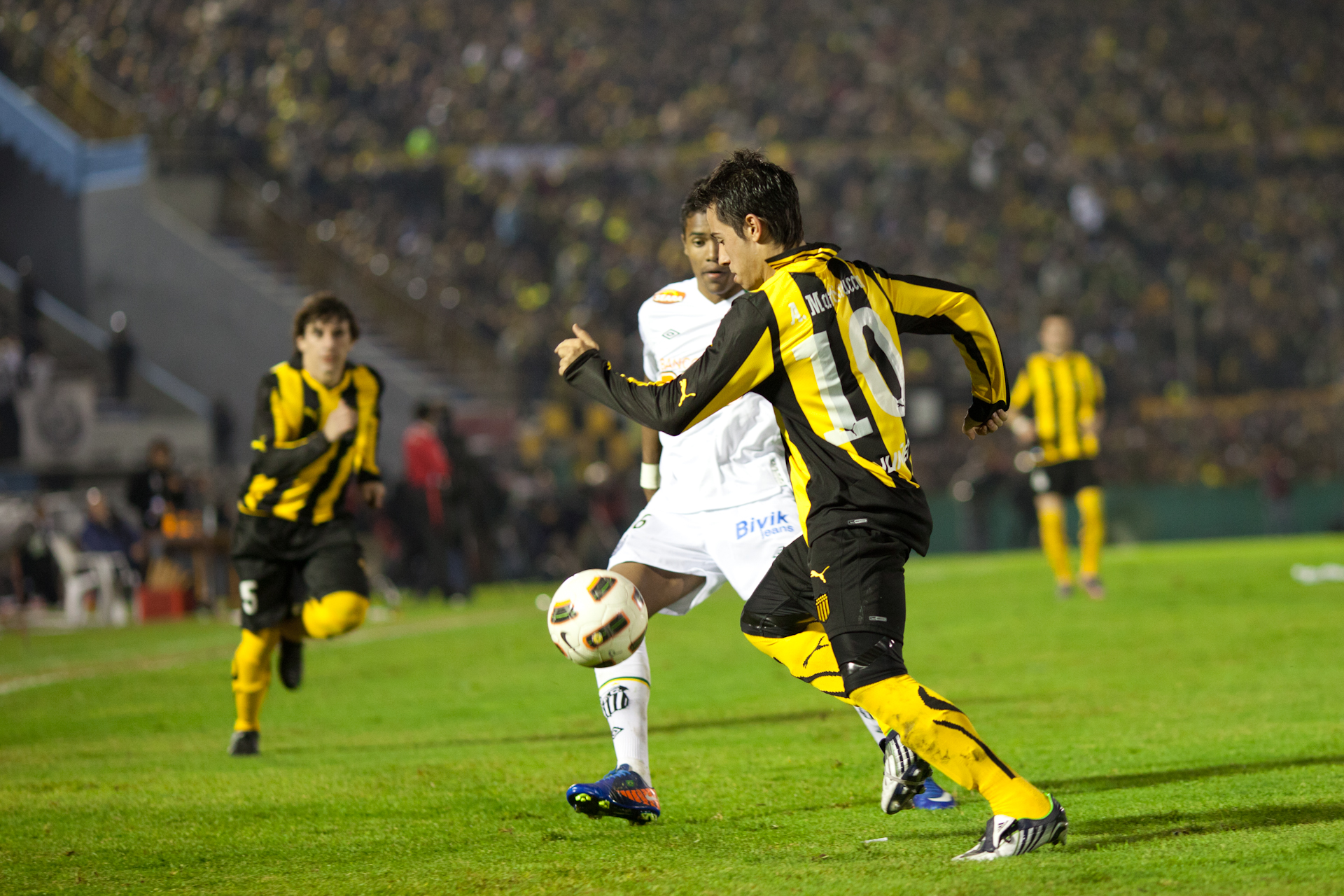 Peñarol player, Martinuccio, during the 2011 Copa Libertadores final in the Centenario Stadium of Montevideo.